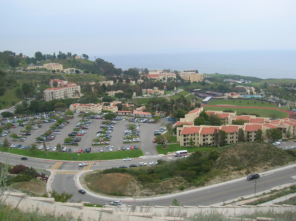 Looking down at lower campus of Pepperdine University in Malibu, California.